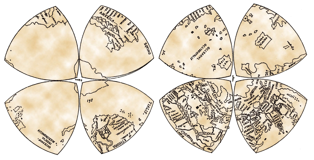 Mappamundi (World Map)